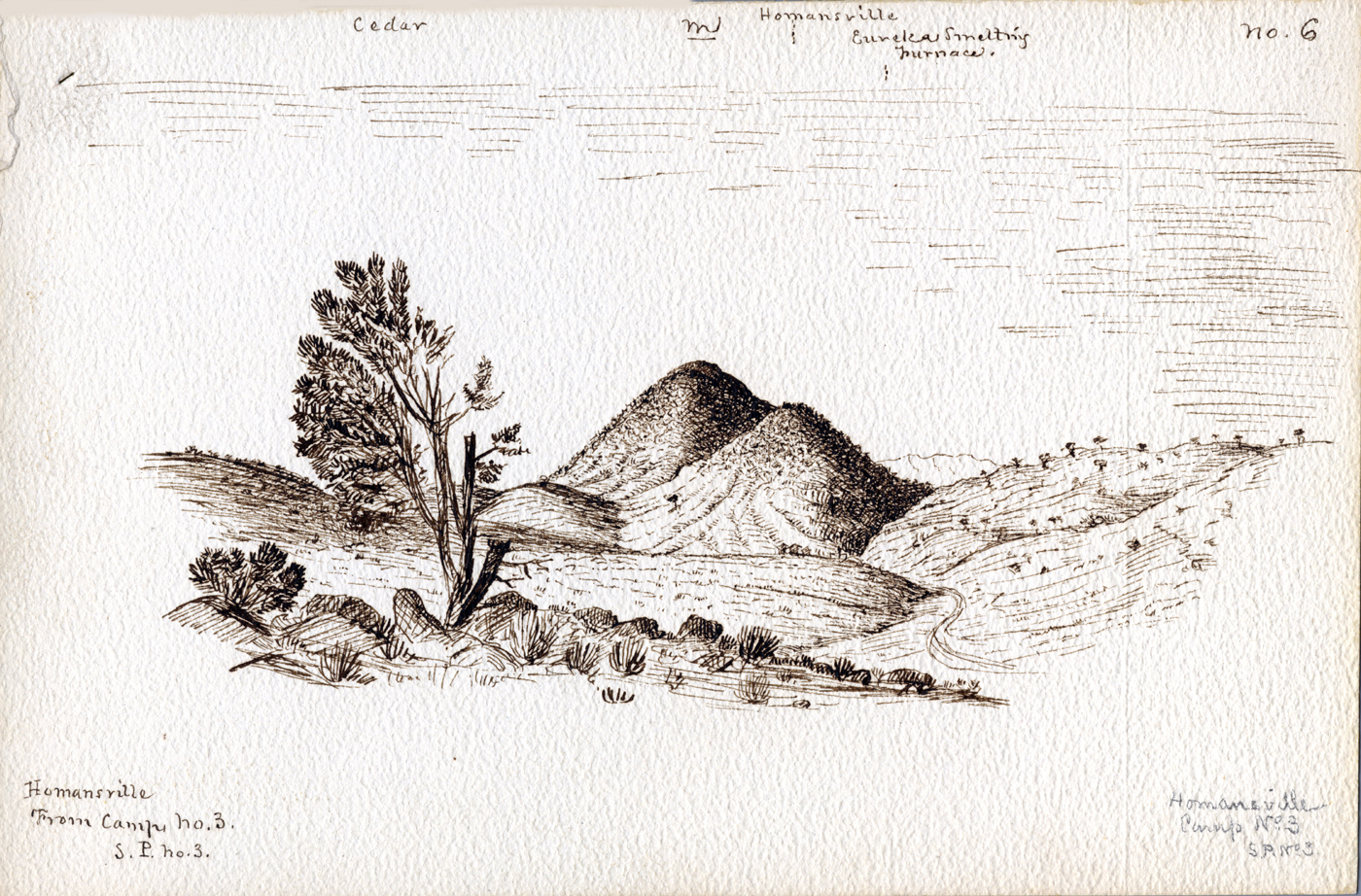 Geographical surveyor's sketch of the Homansville area near the Eureka Smelting Furnace in Utah Territory.